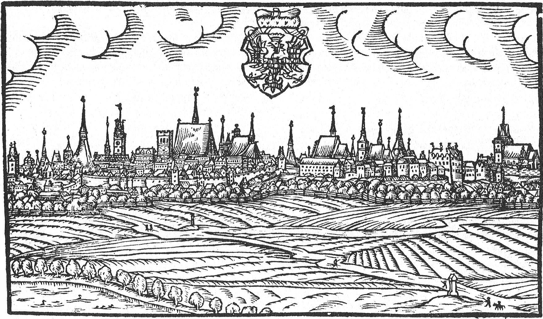 City of Olomouc (Czechia) in 1593.